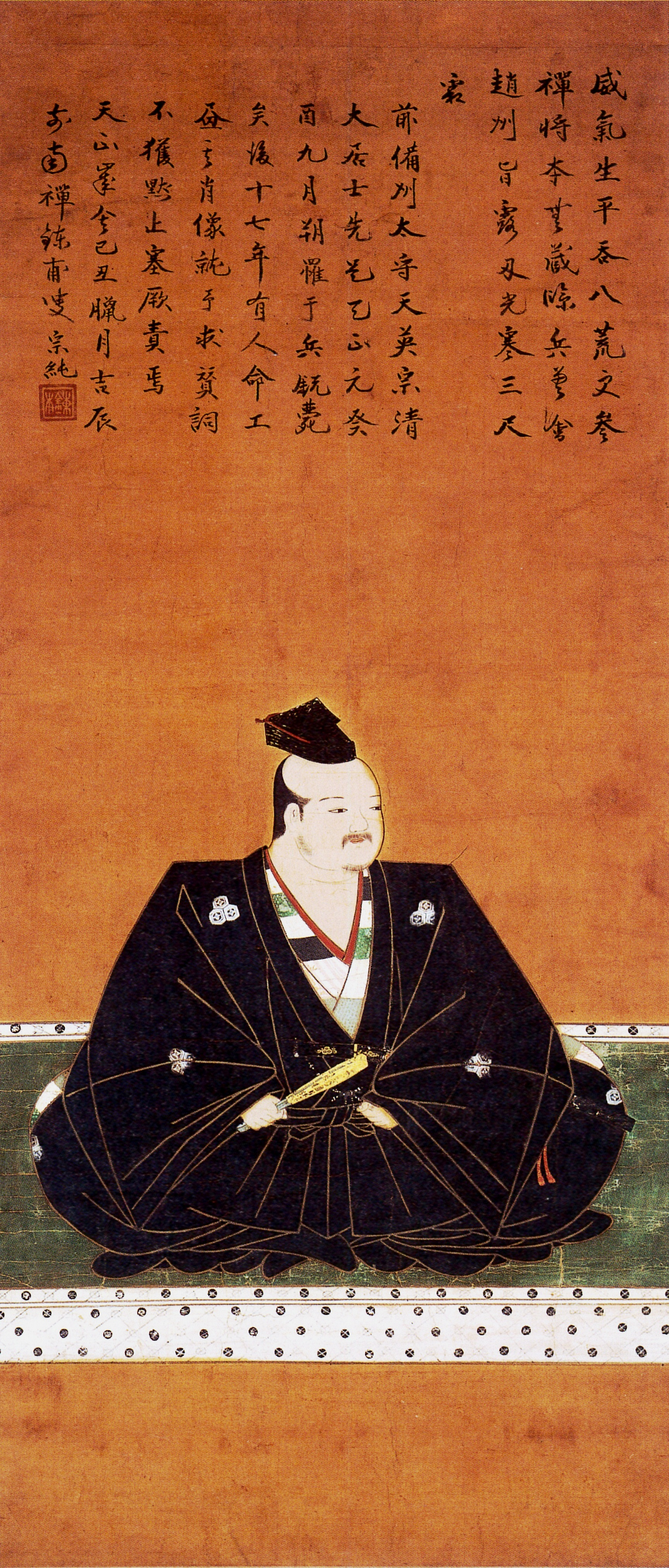 Portrait of Azai Nagamasa